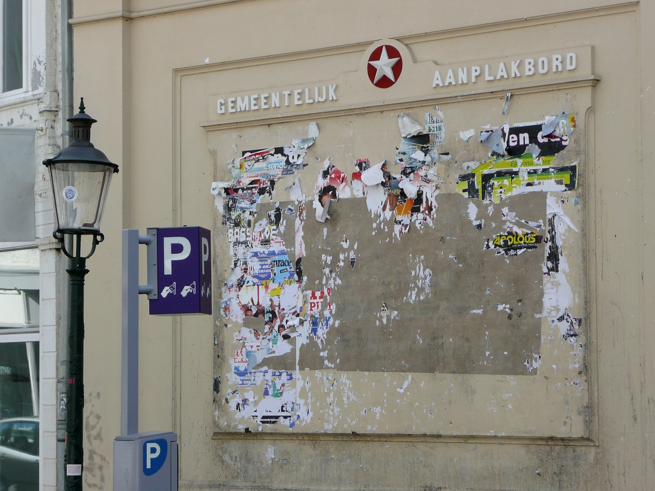 Municipal notice board in Maastricht, the Netherlands.